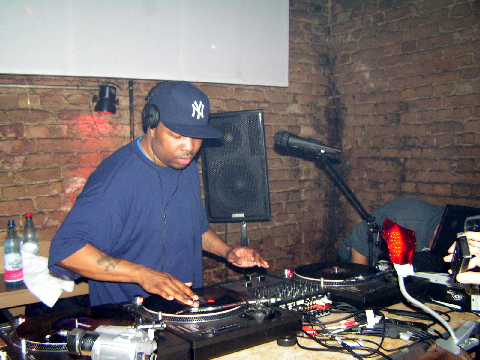 DJ Scratch At A Gig In Berlin February 2008